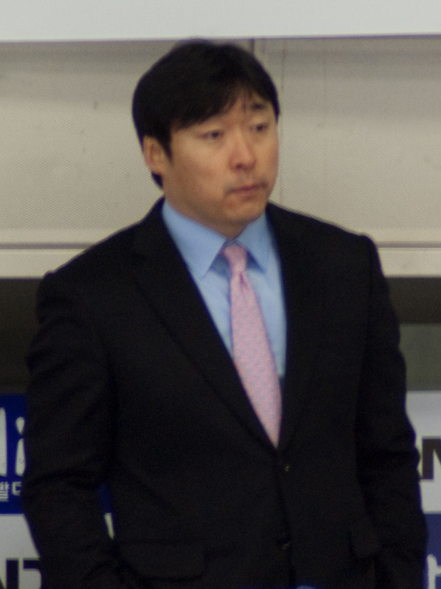 Shim Eui-sik behind the bench for the Anyang Halla